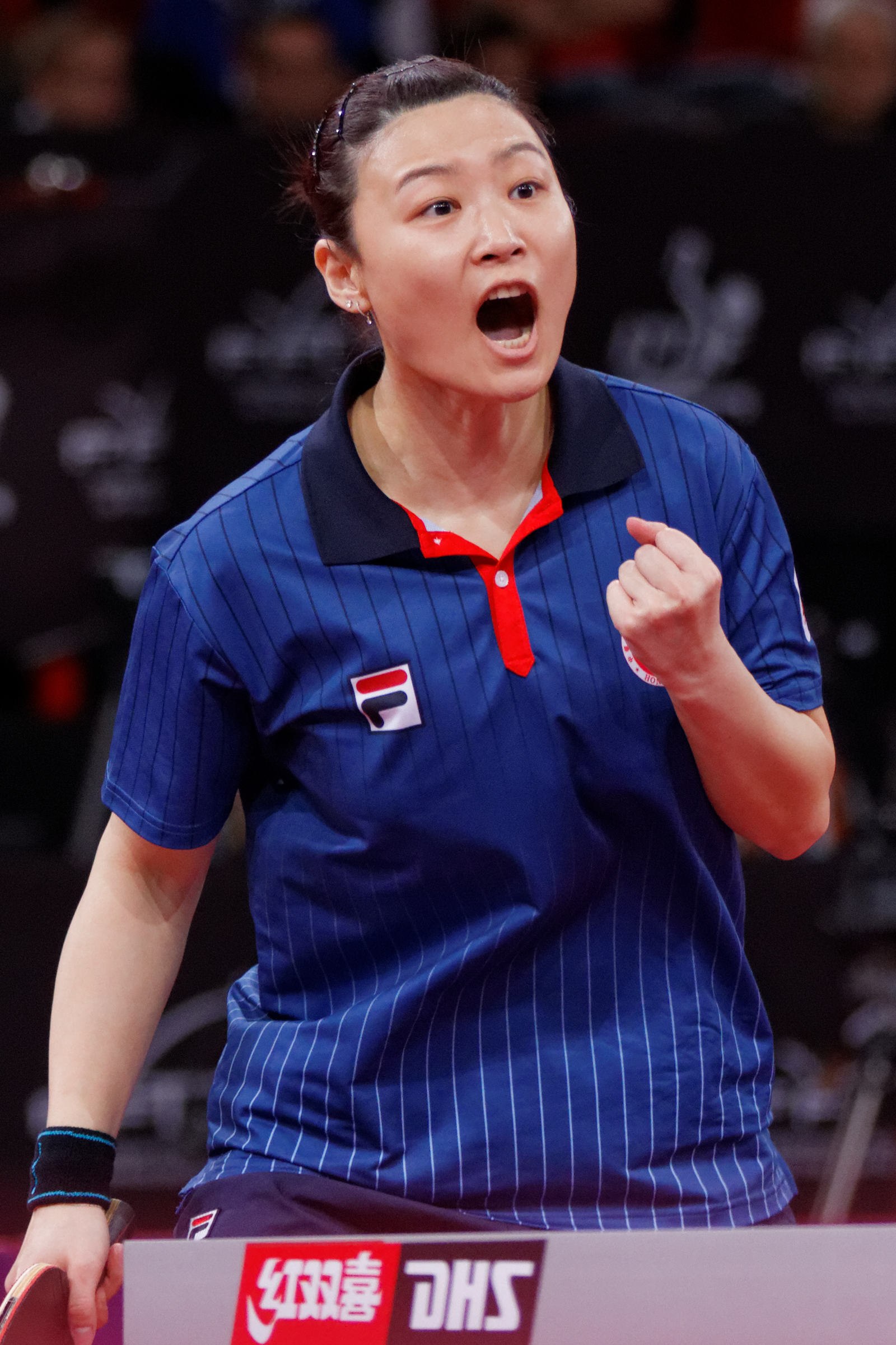 2013 World Table Tennis Championships, Paris. Mixed Doubles Semifinal. Cheung Yuk and Jiang Huajun vs Kim Hyok-Bong and Kim Jong.